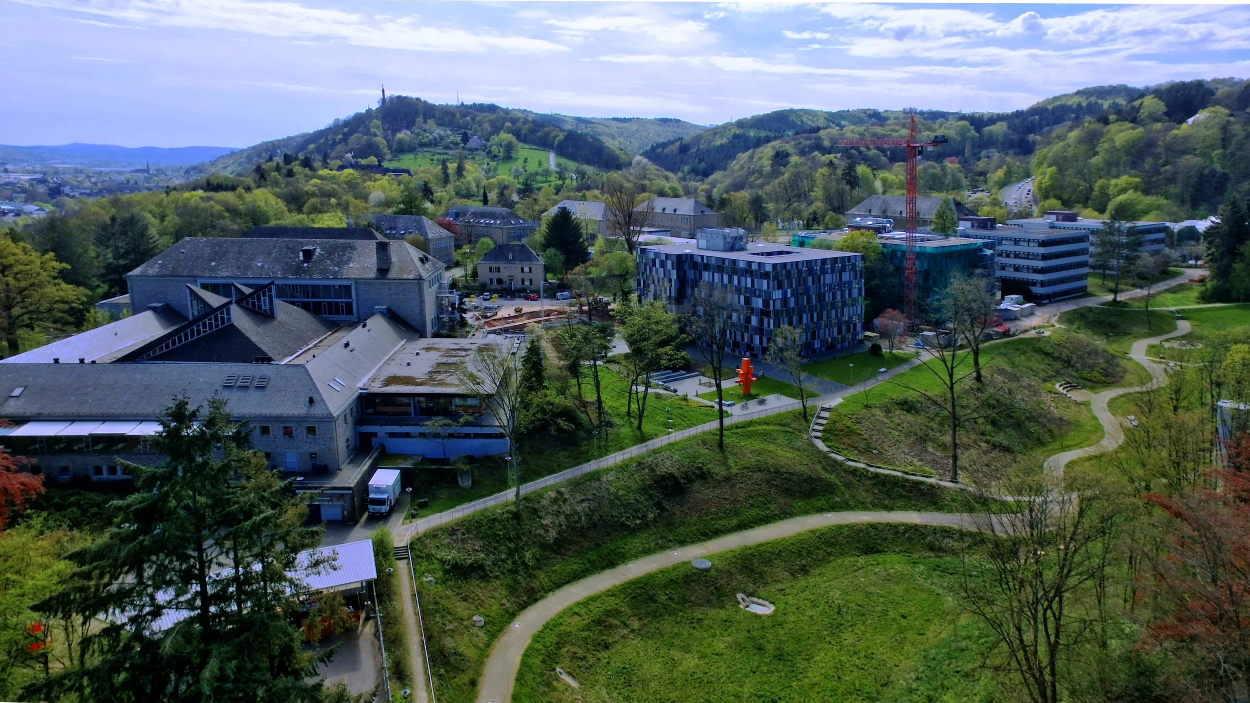 Hochschule Trier, University of applied sciences, Central Campus Schneidershof from the north